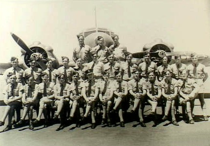 Geraldton, WA. Group portrait of members of `Z' Flight, No. 15 Course, Advanced Training Squad, No. 4 Service Flying Training School (SFTS), RAAF, in front of an Avro Anson aircraft. Left to right: Back row: ? Spedding-Smith, Frank Leslie Boyd Craig, John Cameron; Centre Row: Hec McDonald, Norm Brown, ? Morton, Mat Martinovich, Keith Milligan, A A Martin, Alan Craze, Jack Murray, Dick Hardey, Cliff Knapp, ? (airman), A W Burgess; Front row: Jack Budd, Ron Cohen, J E T Cooke, Scotty Campbell, Sergeant ? (new instructor), Flight Lieutenant John Kessey, Sergeant Smith (instructor), Sergeant Grainger (instructor), Ken Champion, `Hoop' Hooper, Lee Scanlan, M `Doc' McLeod.